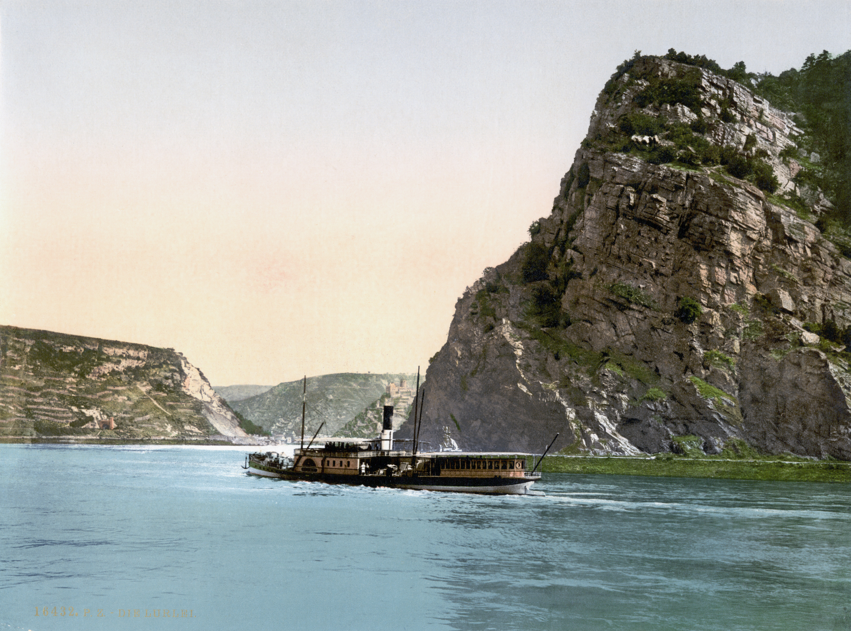 Loreley on the Rhine